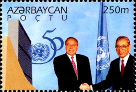 A printing is offset on chalk-overlay paper with glue. Perforation: 14. Size of the stamp: 42,6x28,5 mm. There are 9(3x3) stamps in the sheet. Multicoloured. N 347 - 250 m. The 50th Anniversary of United Nations. A portrait of Heydar Aliyev, the President of the Azerbaijan Republic and Butros Galley , General Secretary of the UN. Circulation: 36000